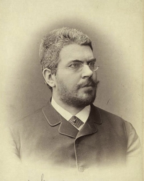 Emil Steinbach, Austrian statesman